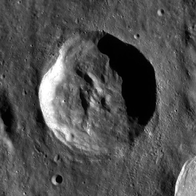 Rydberg crater, on the far side of the moon. Mosaic of LRO WAC images. Aspect ratio adjusted from Mercator Projection.